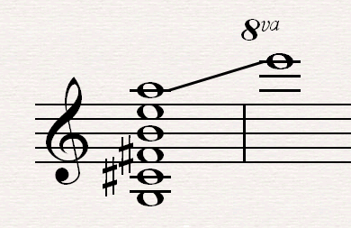 Range of bandurria